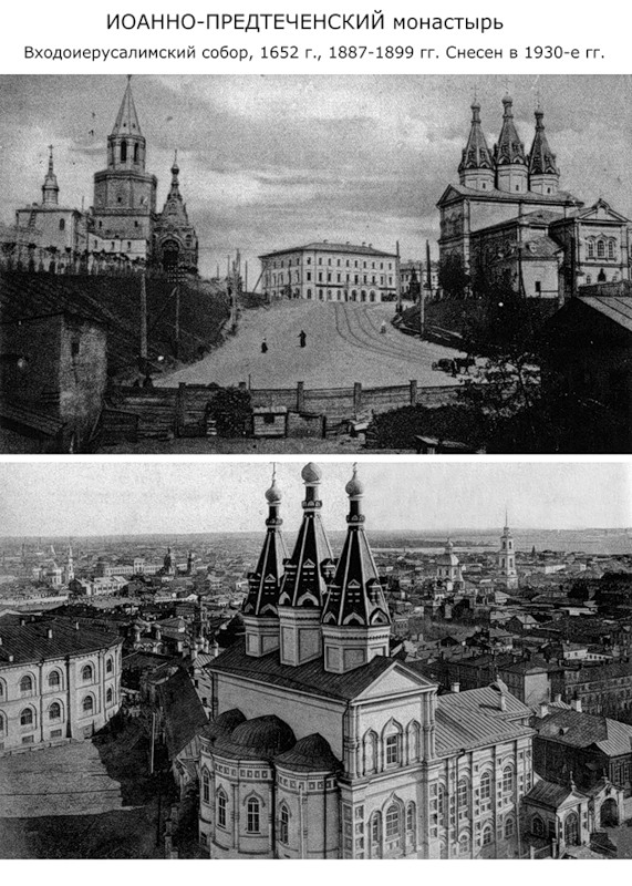 Spasskiy Tower of Kazan Kremlin and Ivanovskiy monastery